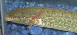 Head shot of a greater siren (Siren lacertina)